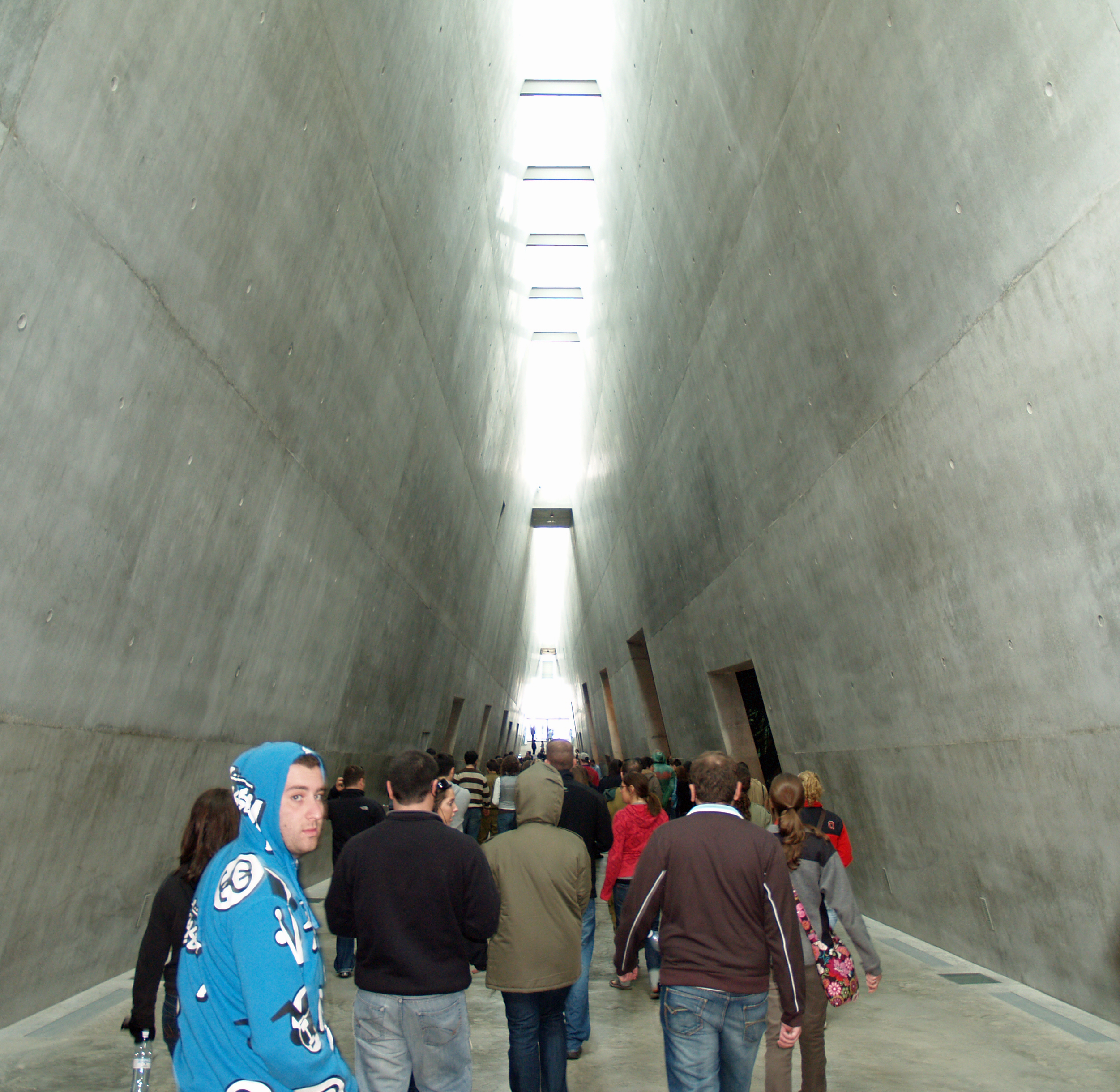 Yad Vashem museum interior.